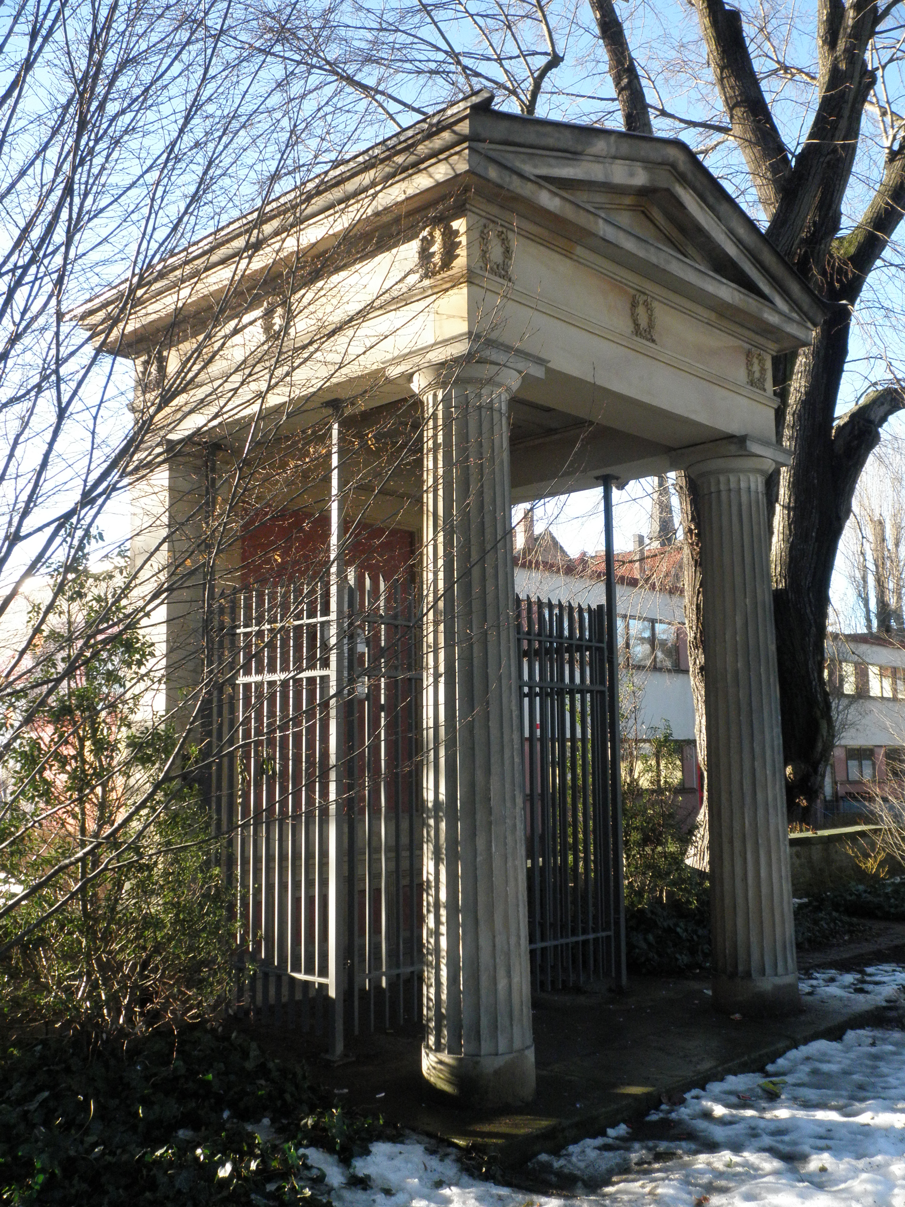 Tomb of Karl von Müffling in Brühler Garten in Erfurt in Thuringia